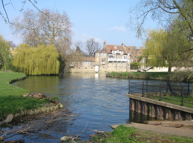 The Cam by Darwin College